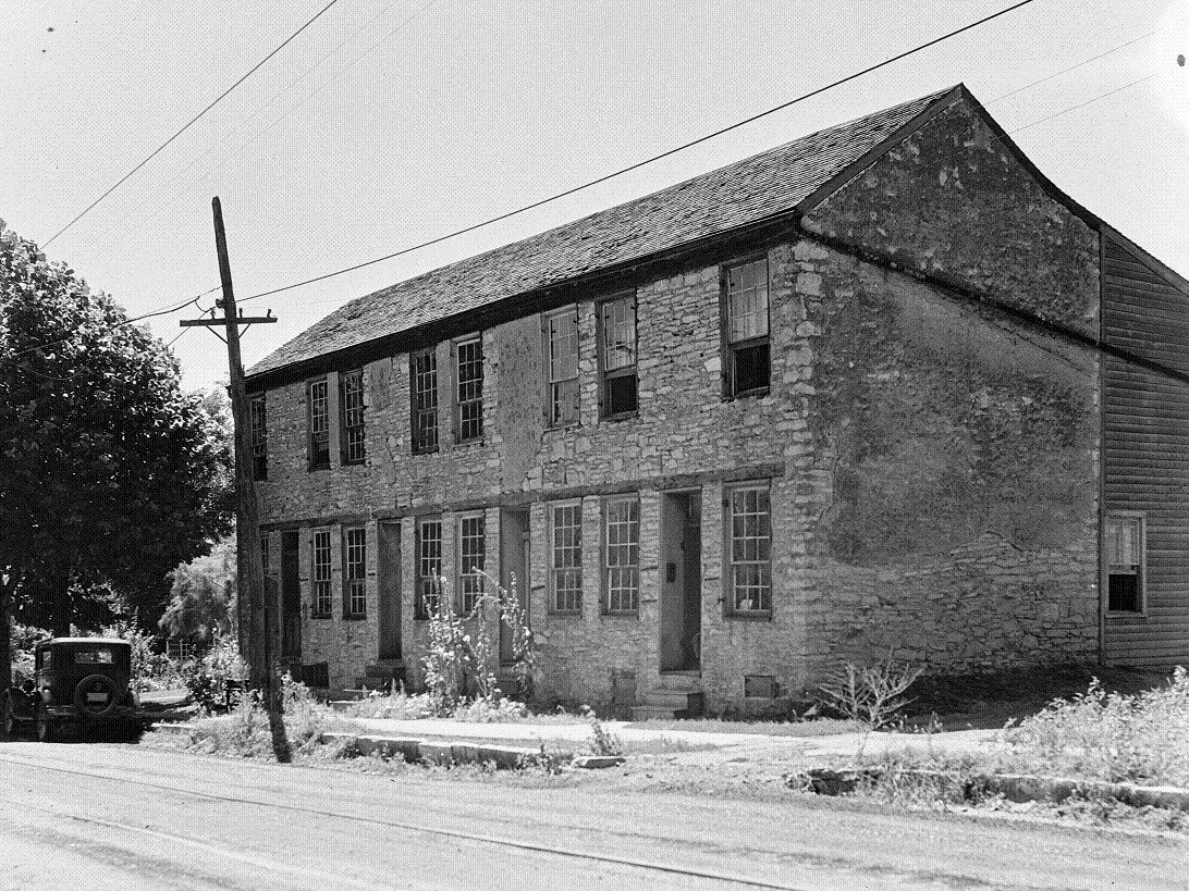 Corner of Stone House with street and curb, Waterloo, IL. This stone house, built in the 1830s, stood in the historic Peterstown district of Waterloo, Illinois. A portion of the Stone curb, still remains, including an old horse trough, cistern, and hand pump, in front of Peterstown House, which was just to the north (right) of the building in the picture